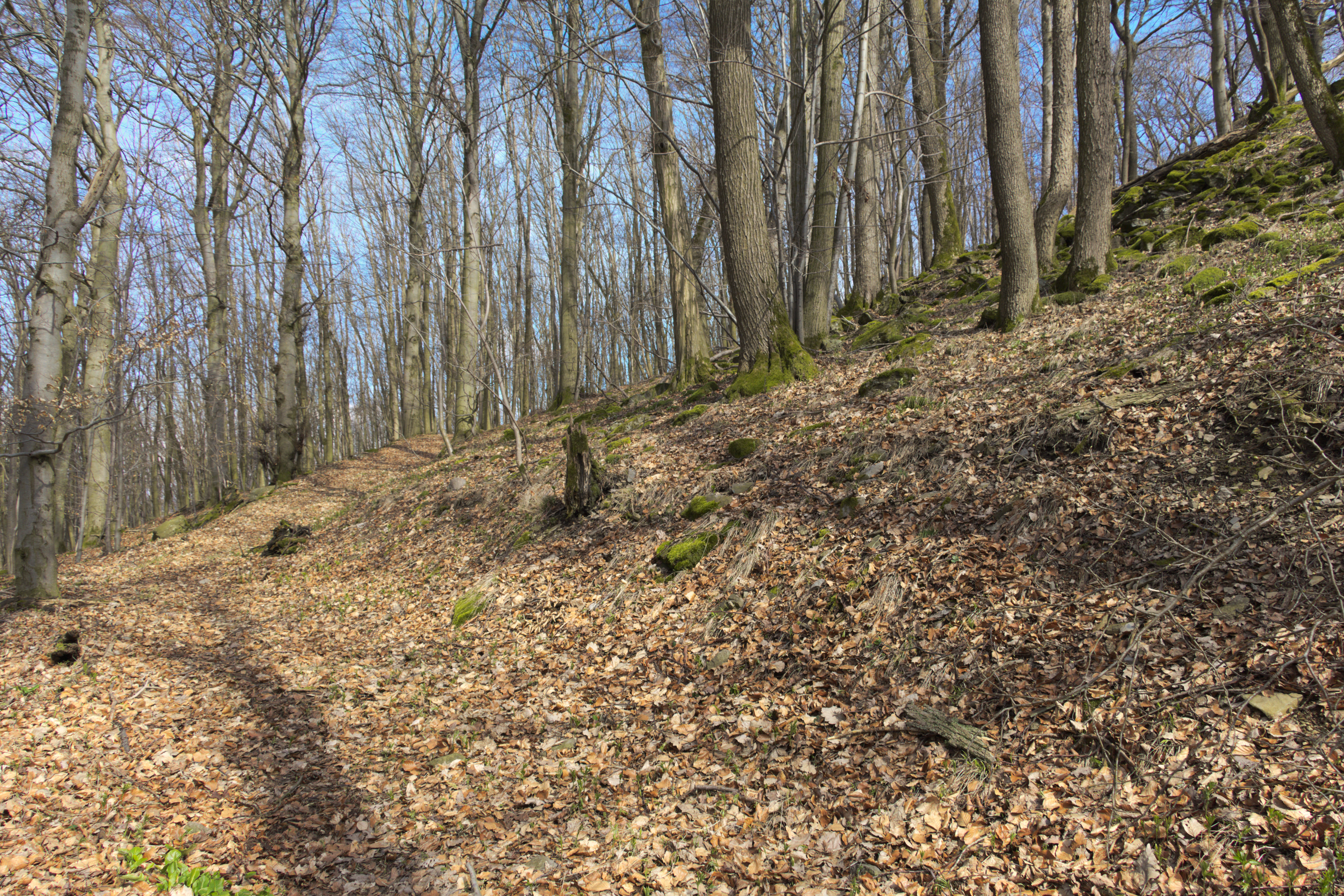 Kleinberg SW Mountain Peak, Rasdorf, Rasdorf , Hesse, Germany